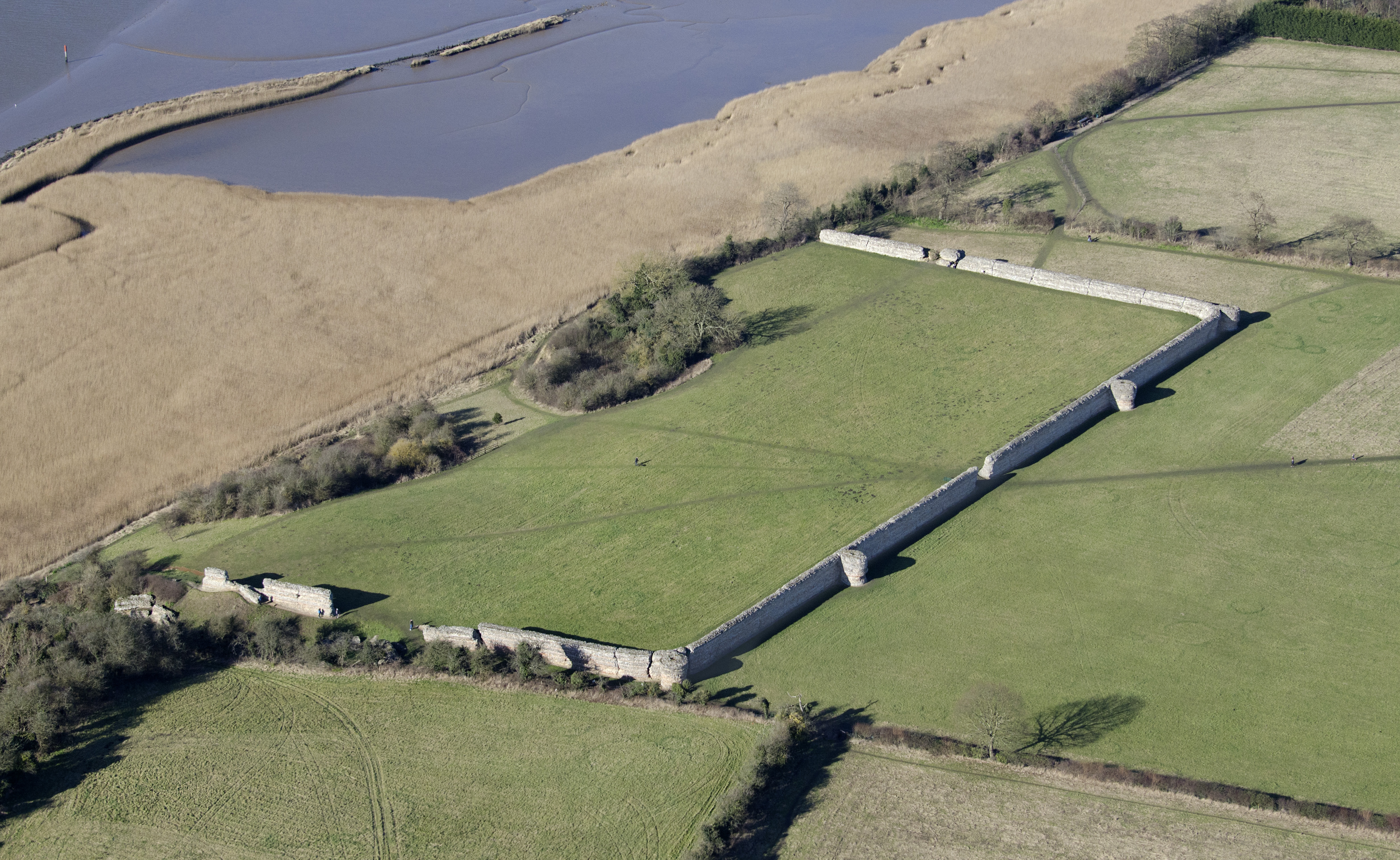 Burgh Castle aerial - the best preserved Roman monument in East Anglia - The remains of the fort are in the guardianship of English Heritage.